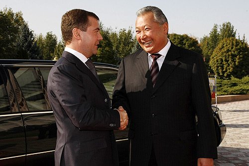 BISHKEK. With President of Kyrgyzstan Kurmanbek Bakiev.